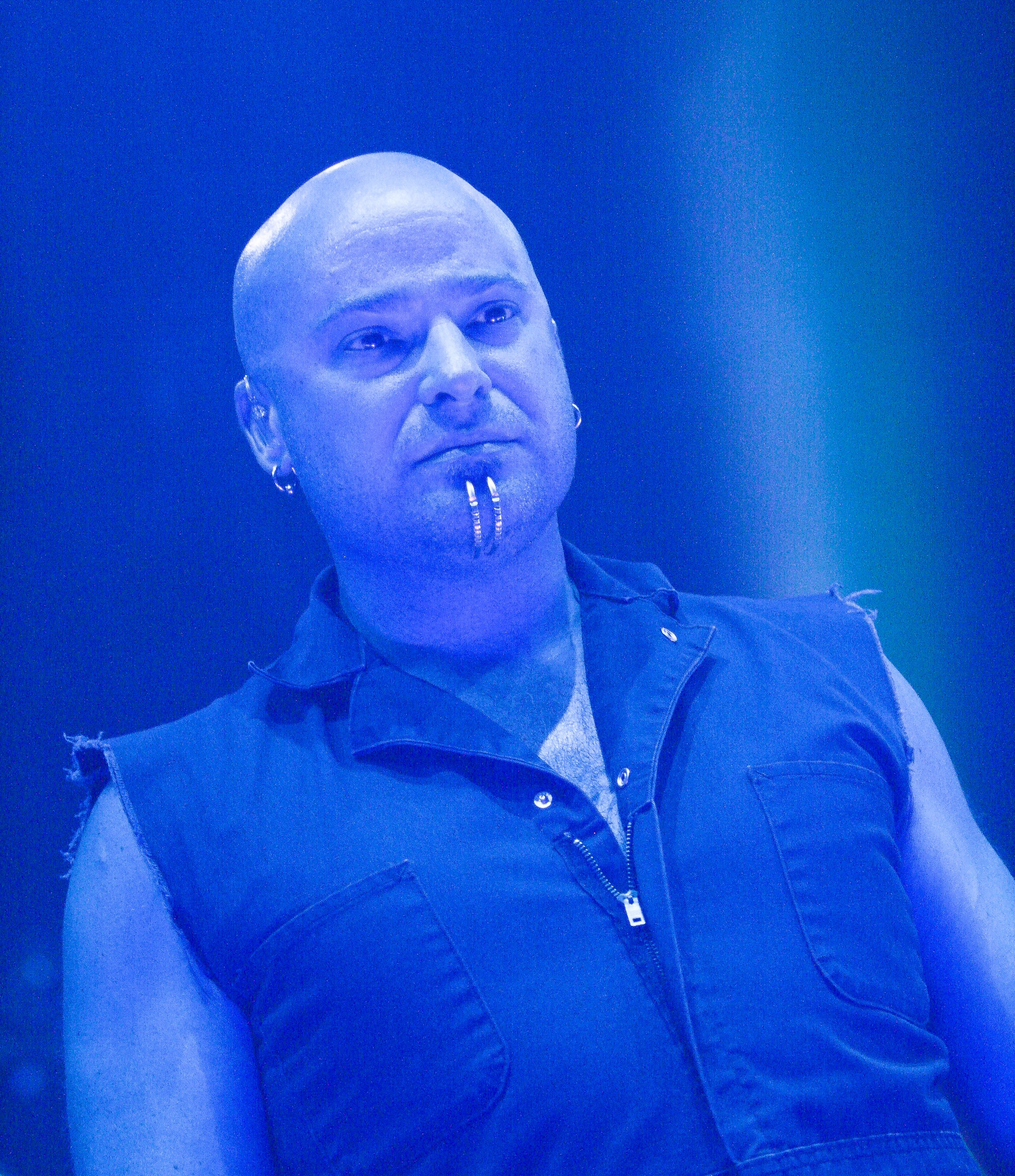 David Draiman, singer of Disturbed, live at Mayhem Festival 2011.